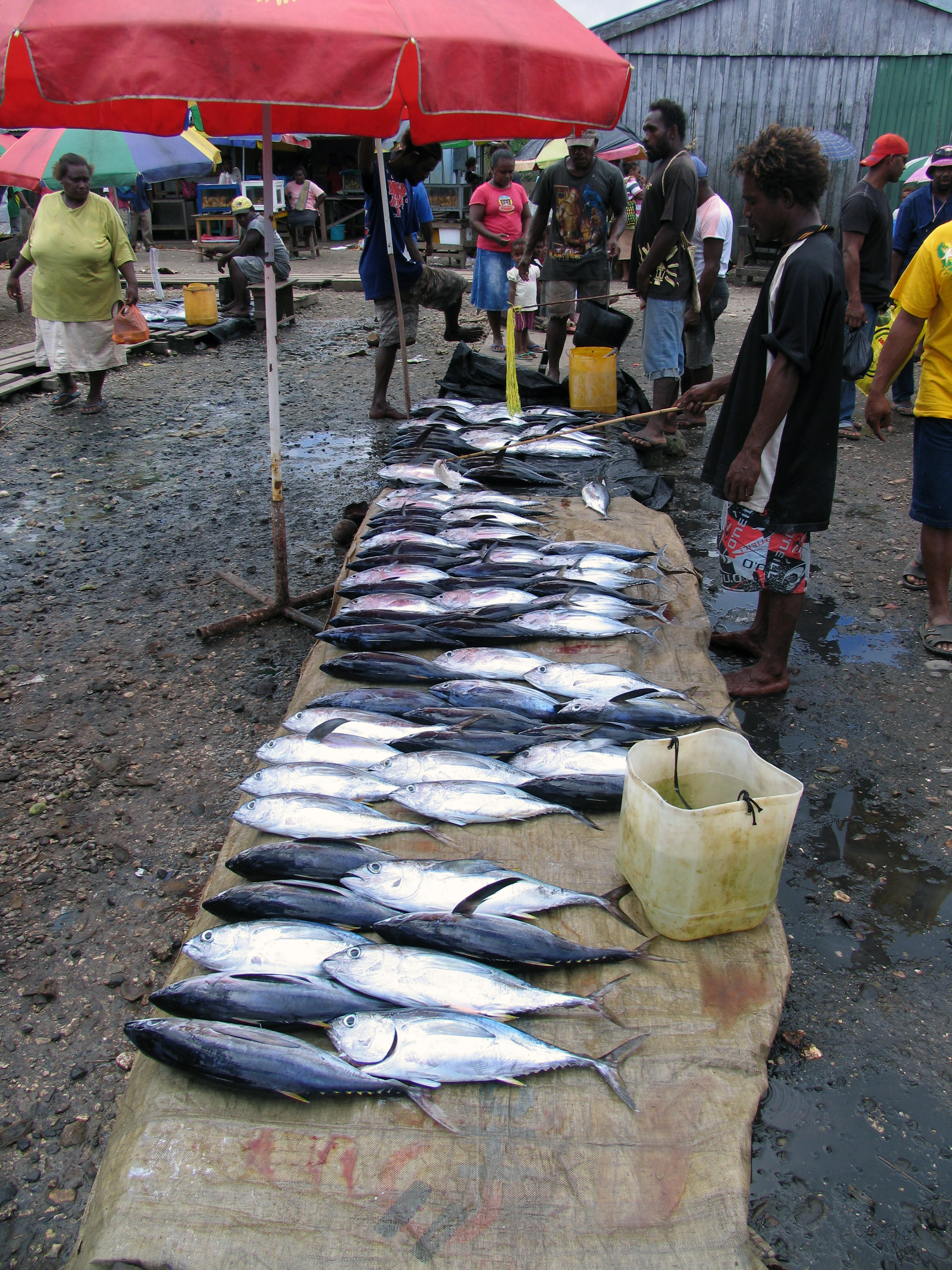 A man keeps flies away from his fish at the old market Auki, the capitol of Malaita.